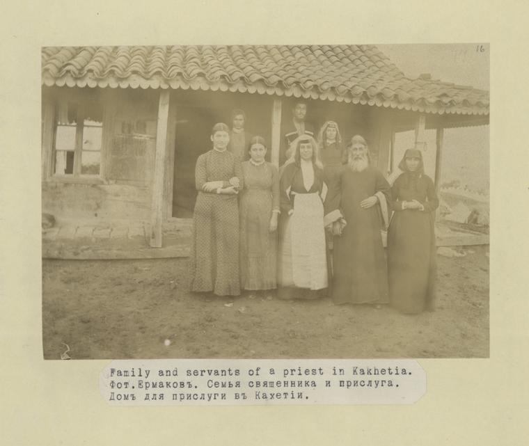 Family and servants of a priest in Kakhetia. Kennan, George, 1845-1924 -- Compiler